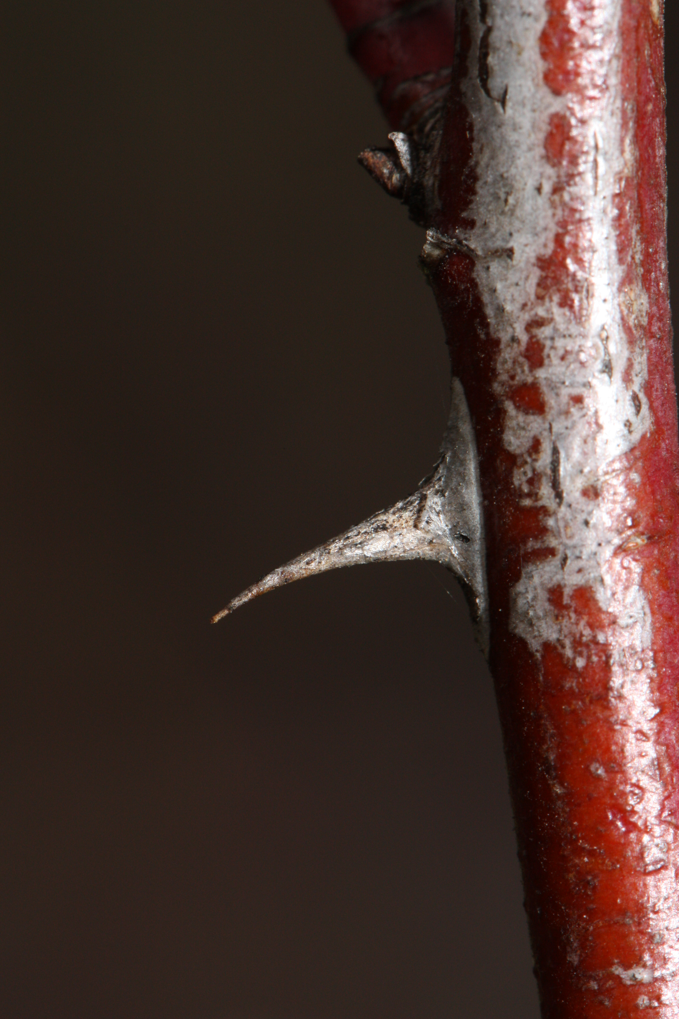 Wood's Rose, Pearhip Rose